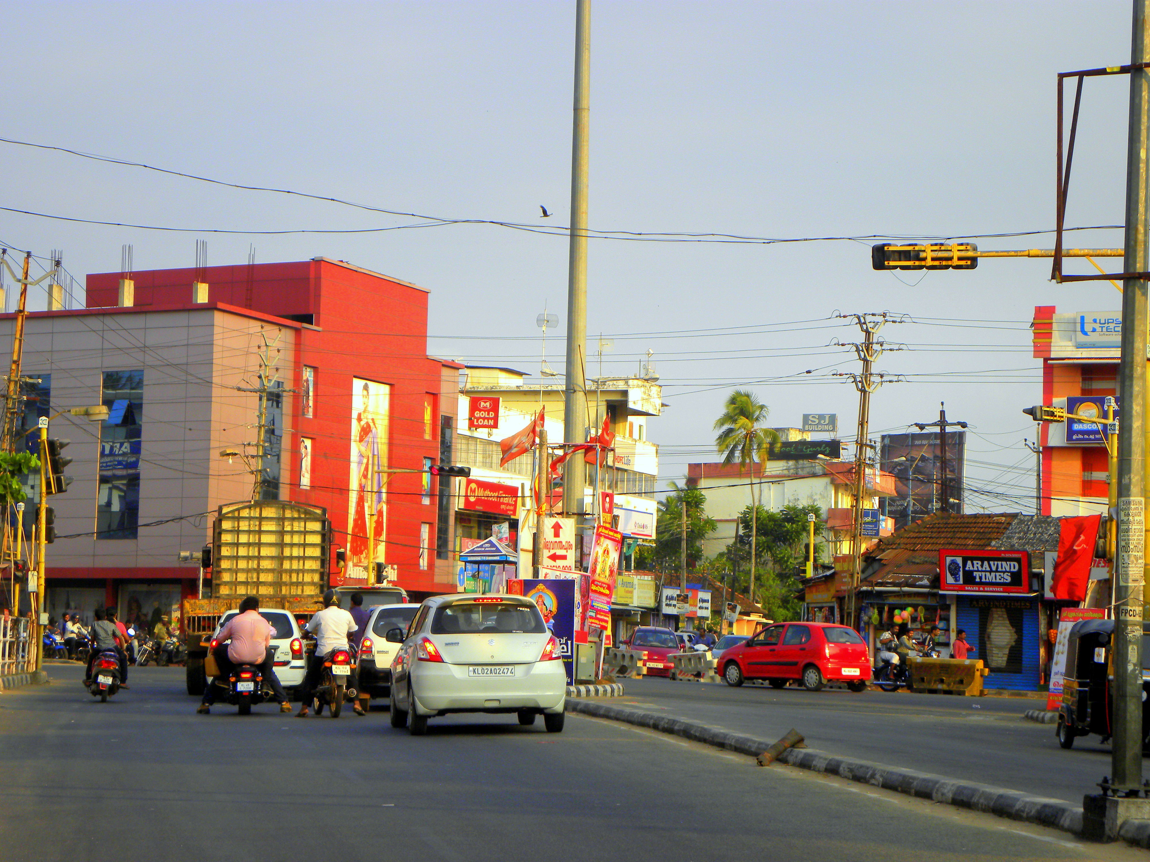 Kadappakada Junction - One of the main junctions in Kollam city, India